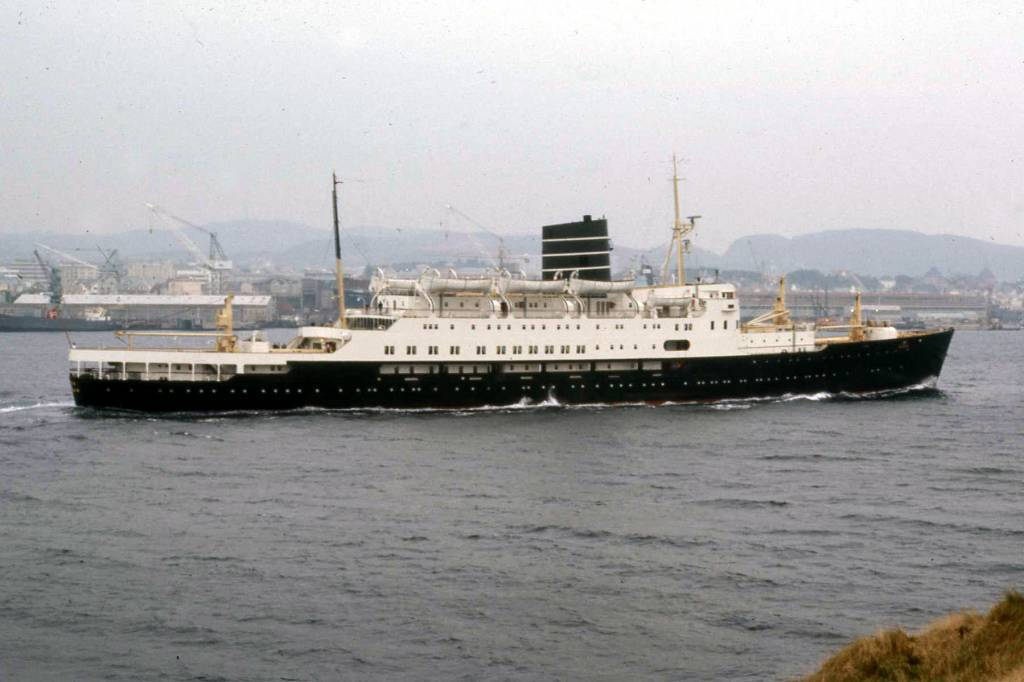 TS Leda - Newcastle - Bergen Ferry photographed passing Haugesund, Norway in October 1973 by Gary McDanielson.